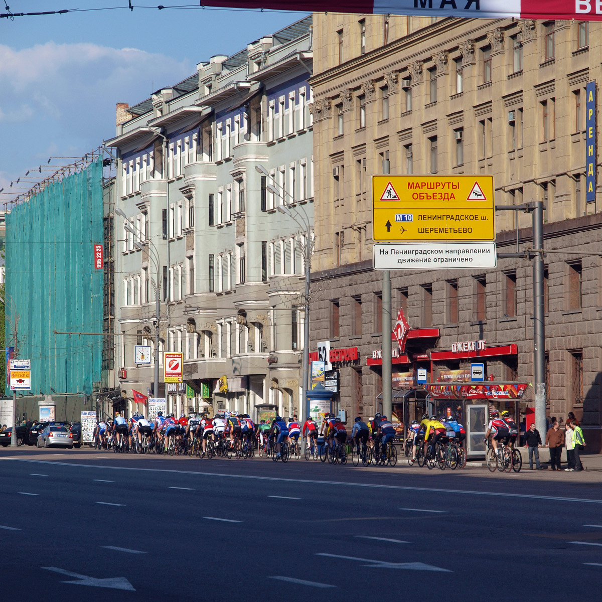 Bolshaya Sadovaya Street, Moscow.